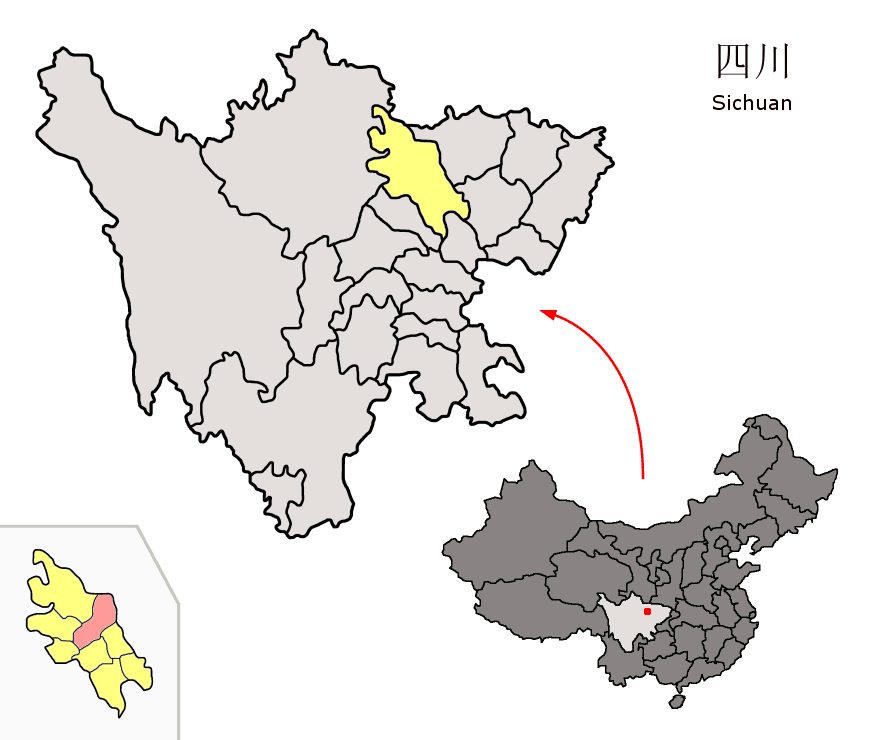 Location of Jiangyou City (pink) and Mianyang Prefecture (yellow) within Sichuan province of China Map drawn in october 2007 using various sources, mainly : Sichuan province administrative regions GIS data: 1:1M, County level, 1990 Sichuan Counties map from